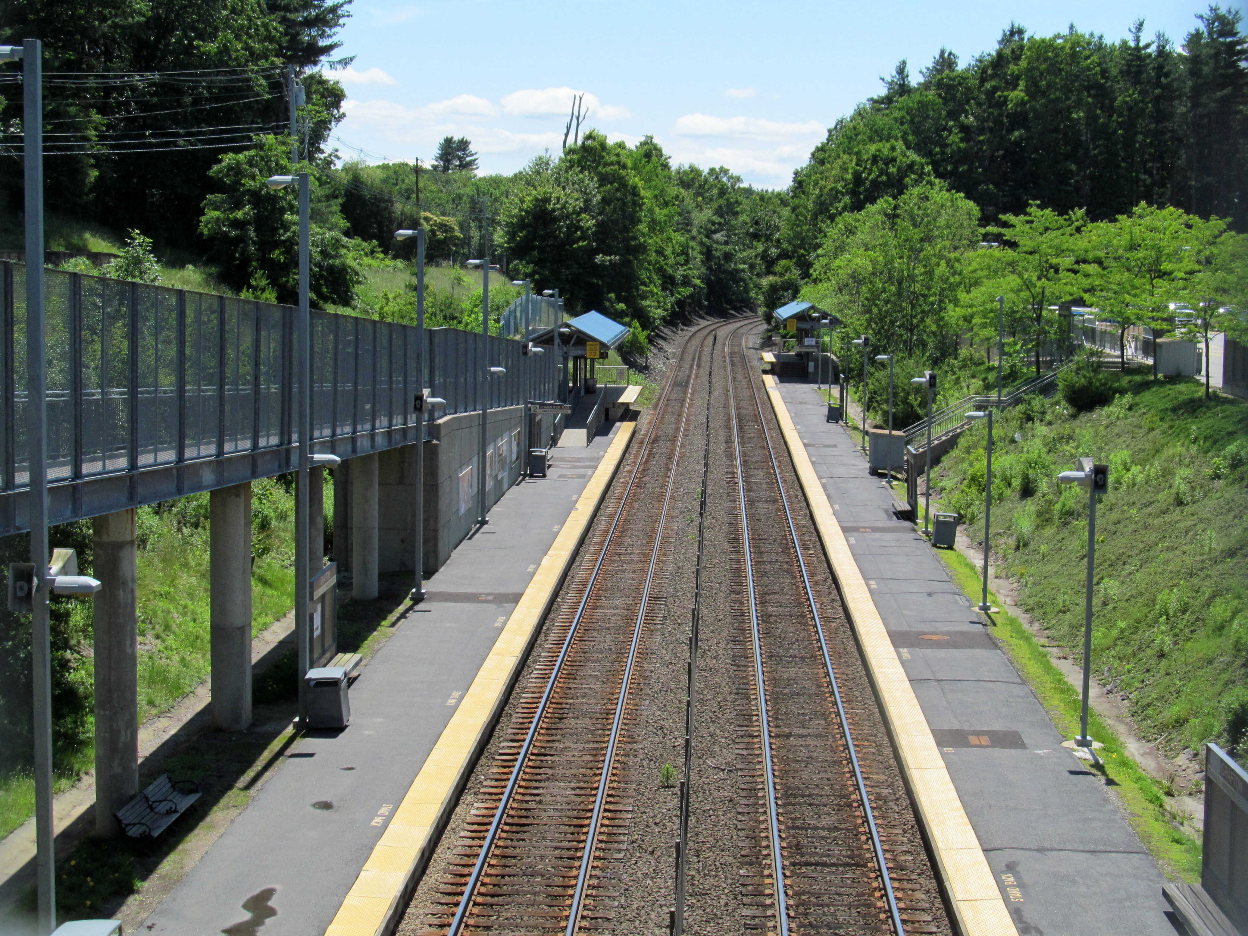 View from the footbridge at Grafton station in June 2012